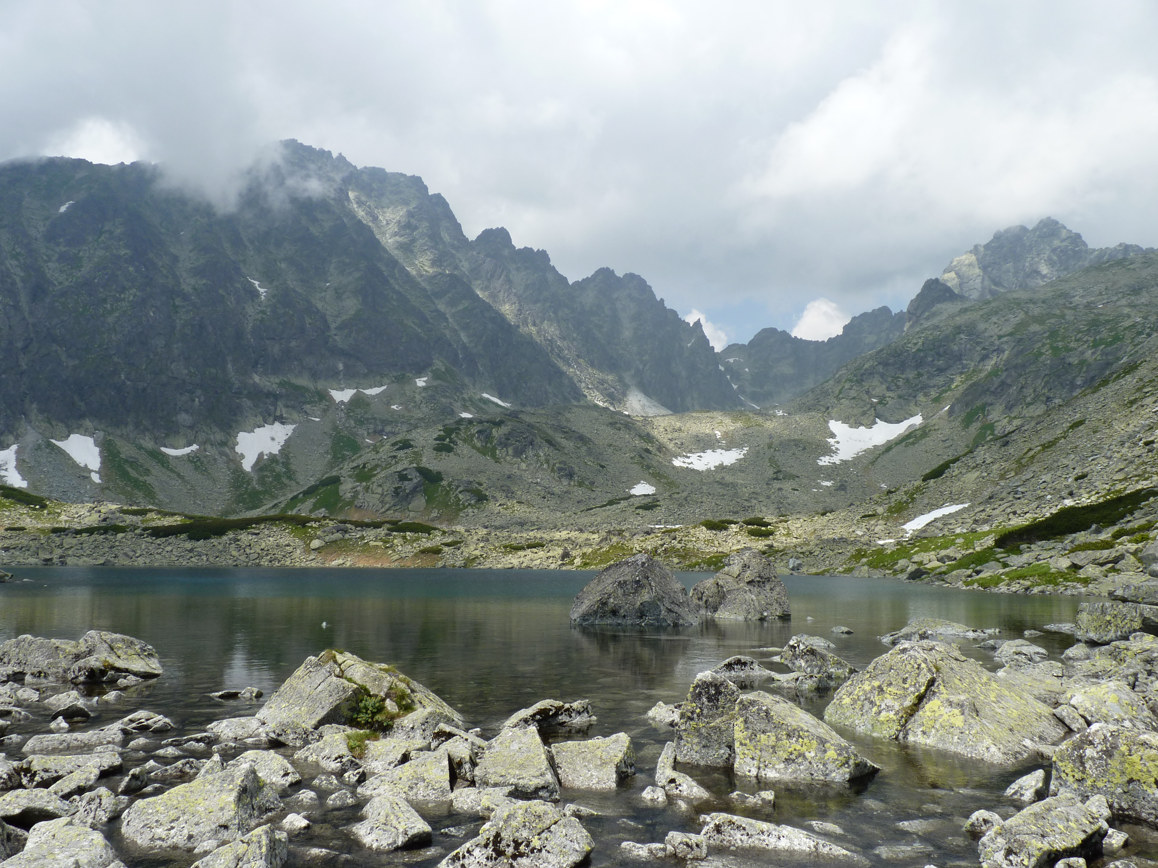 Batizovská dolina (Batizov Valley), High Tatras, Slovakia